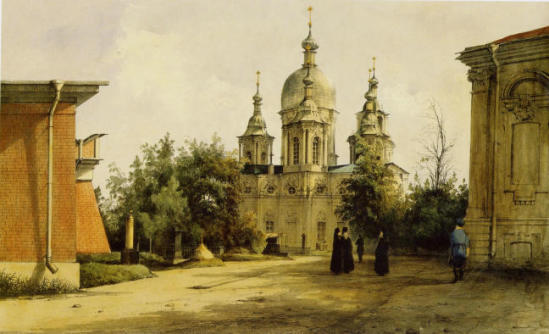 Saint Petersburg (Russia), Strelna, Coastal Monastery of St. Sergius